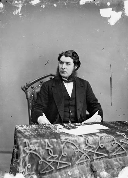 Charles Tupper while president of the Canadian privy council.